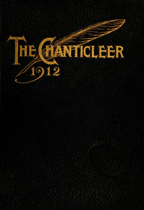 Cover of the first issue of Duke University's yearbook, The Chanticleer,1912